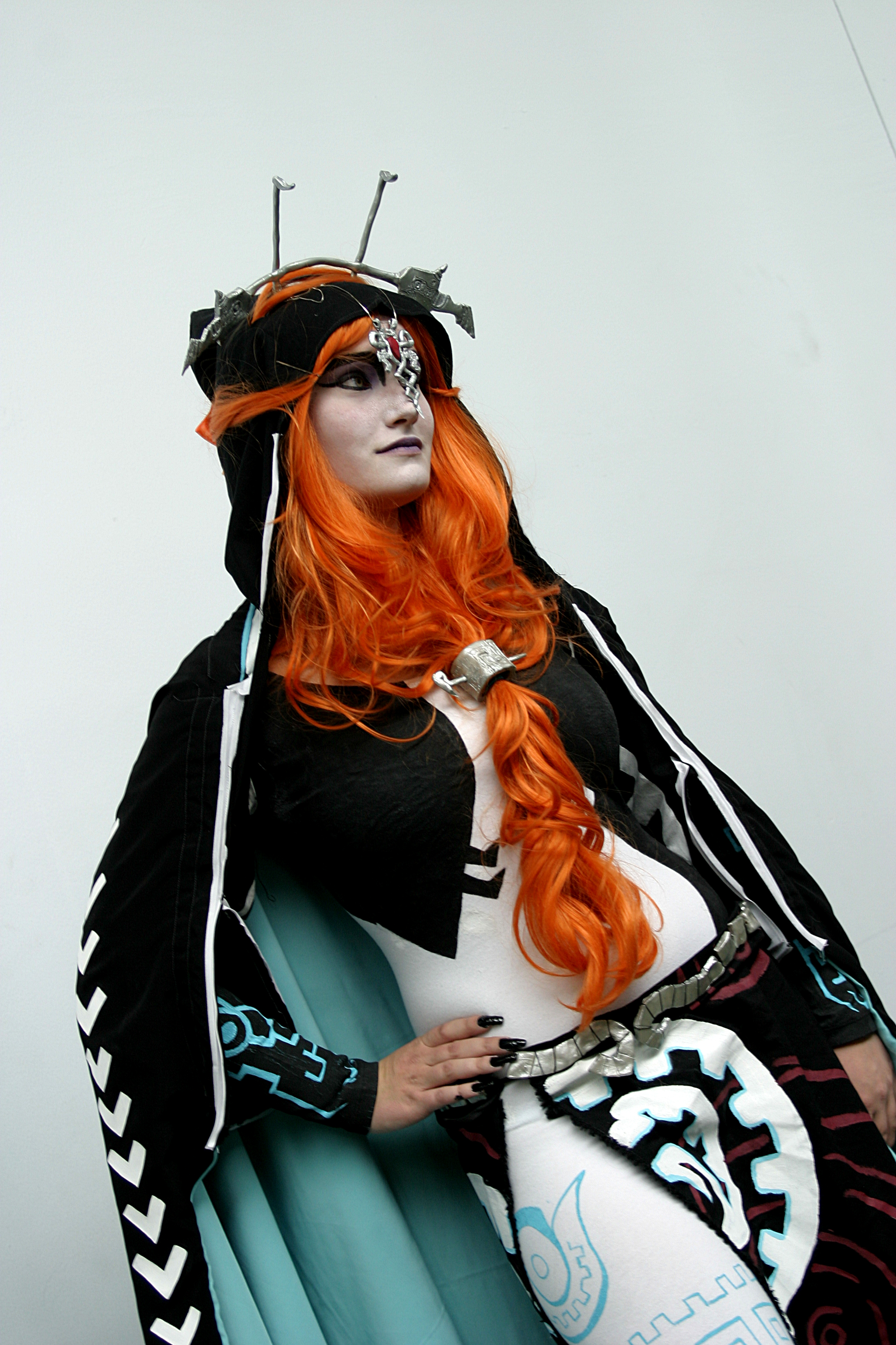 Taken on May 26, 2012 Canon EOS 10D